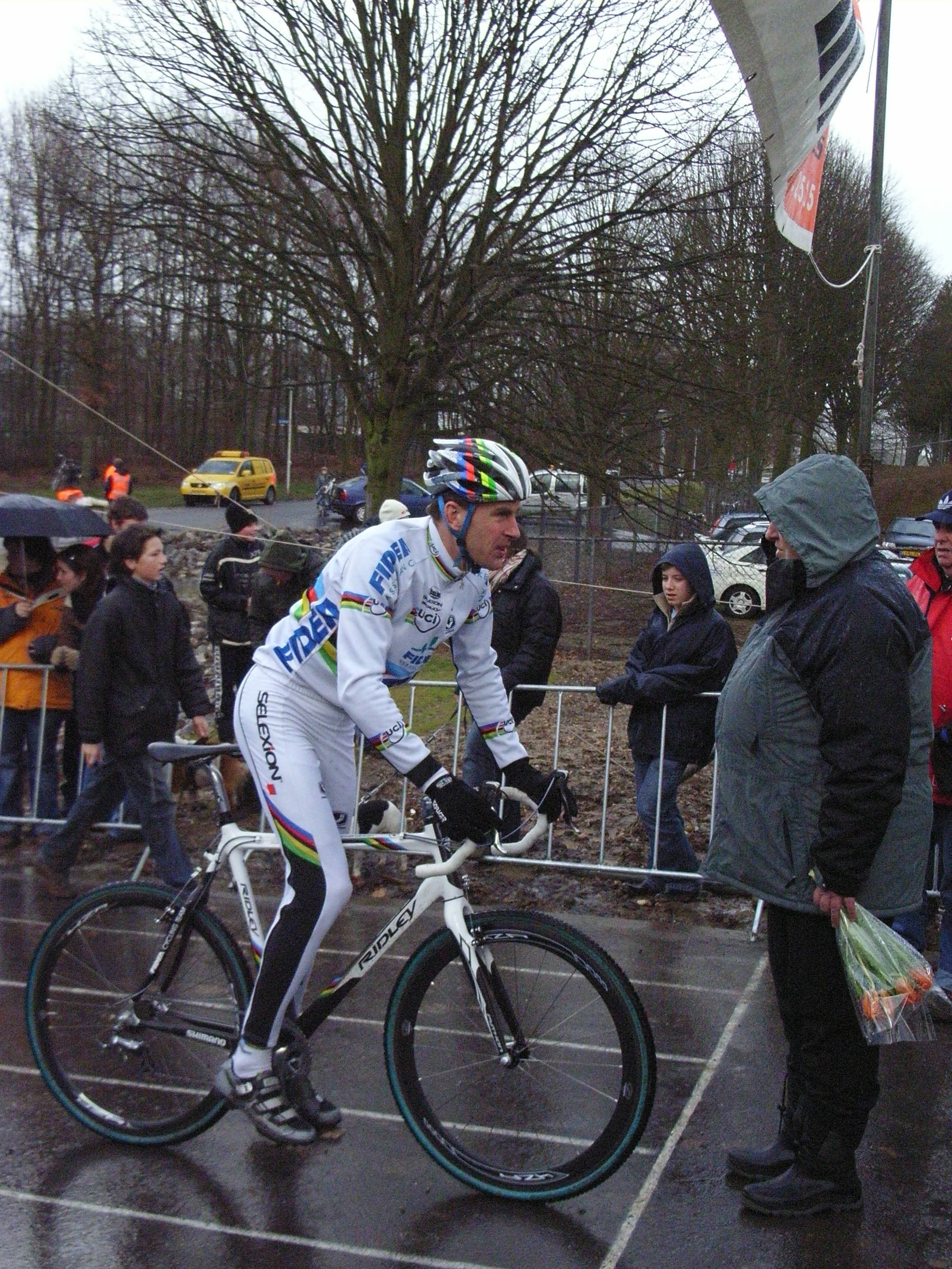 Cyclist Erwin Vervecken in Heerlen 2007